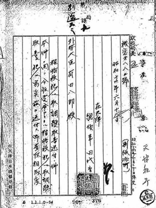 government documents in 1939